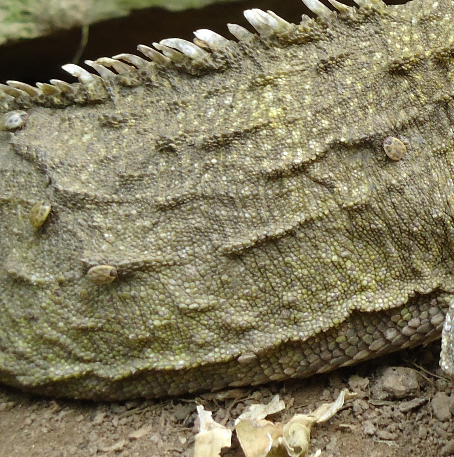 Amblyomma sphenodonti, the tuatara tick